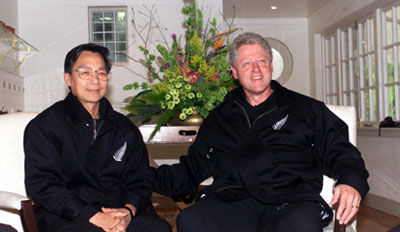 United States President Bill Clinton meets with Prime Minister of Thailand Chuan Leekpai at the APEC leaders' retreat. September 13, 1999 photo by David Scull